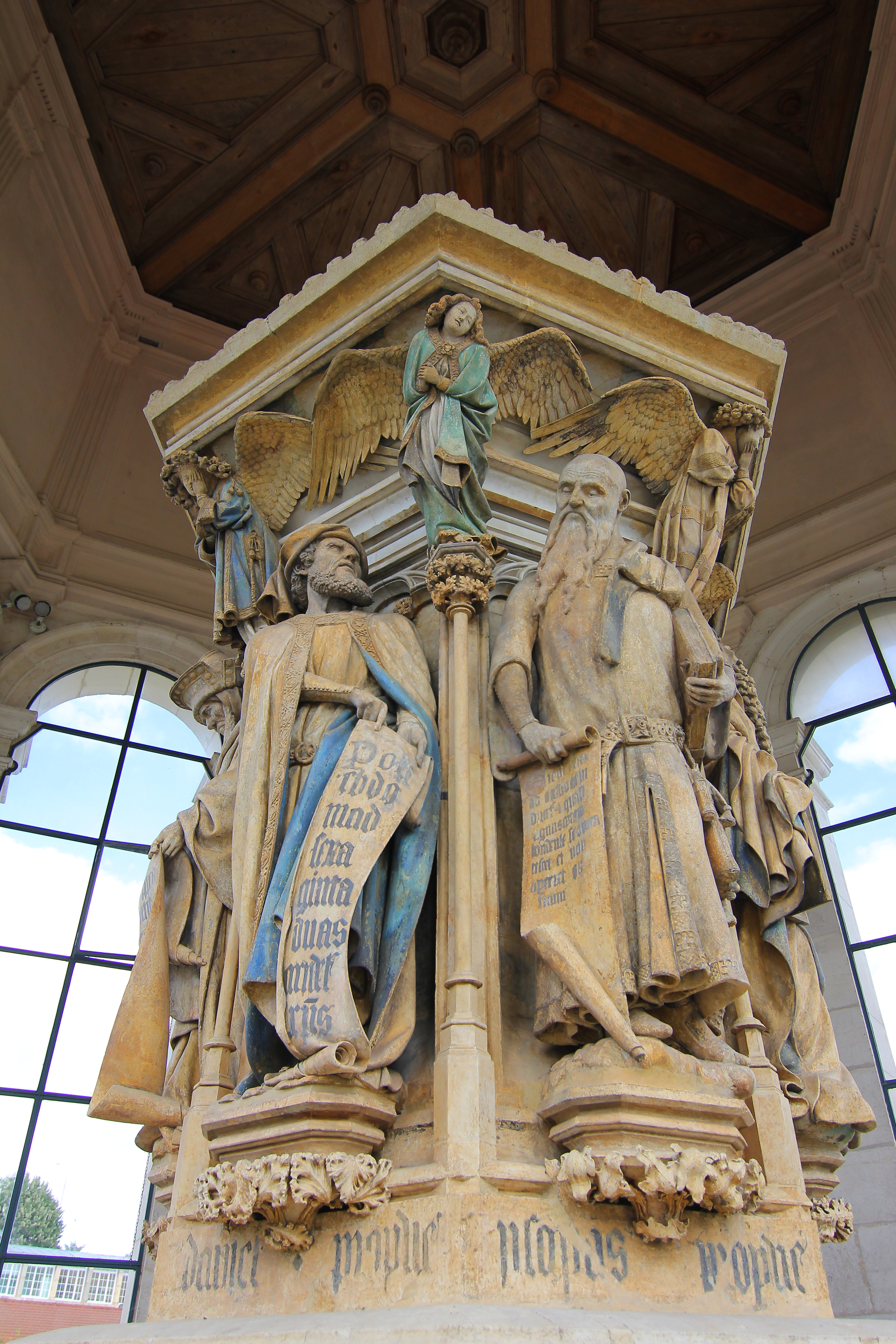 Isaiah